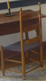 Ladder chair with brass swivels on rear legs